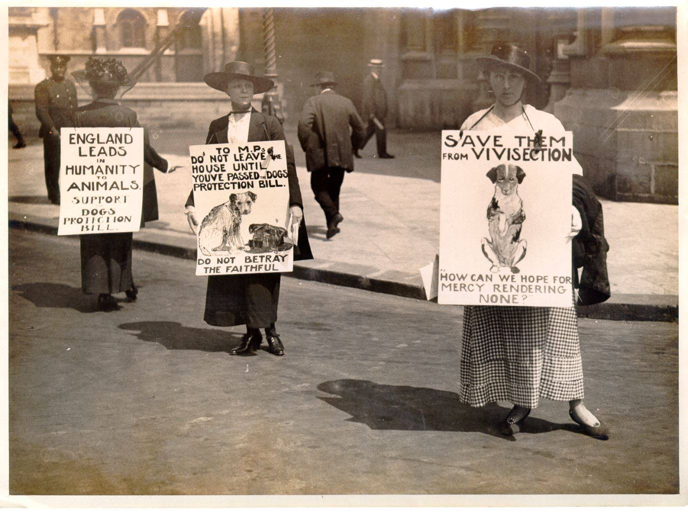 Photo via BUAV - The Campaign to End All Animal Experiments